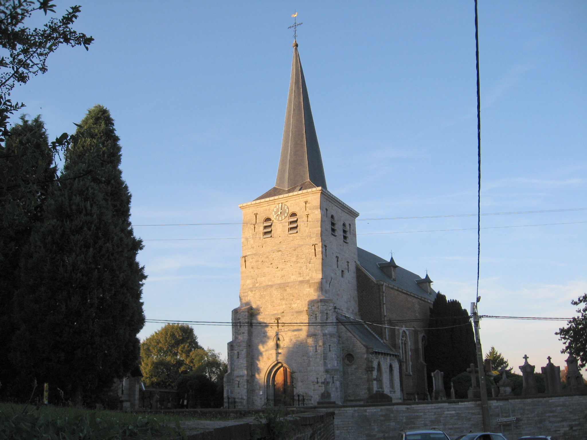 Church of Saint Madelberte in Celles, Faimes, Liège, Belgium